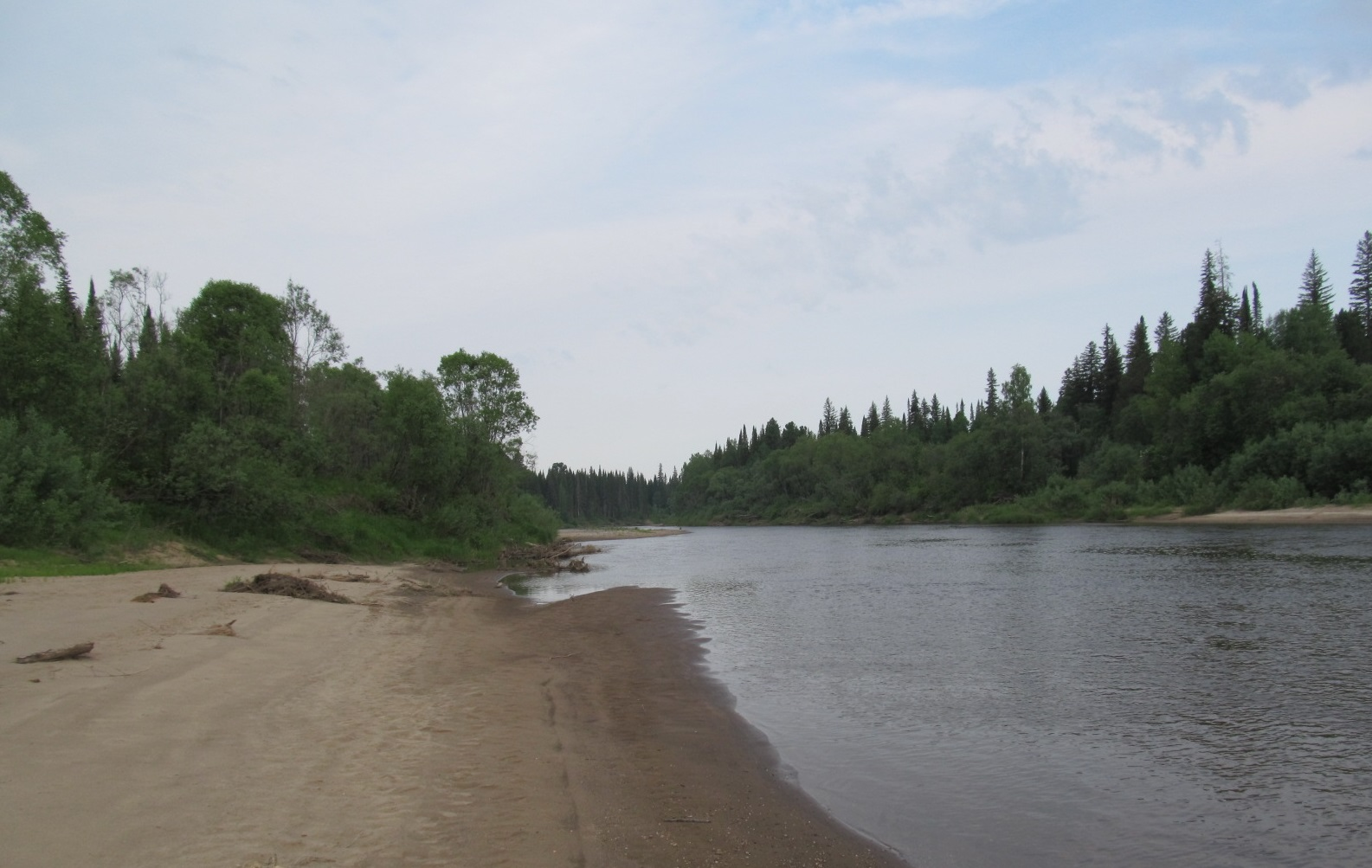 The Bol'shoy Kemchug River after the confluence of the Maly Kemchug River. Birilyussky District, Krasnoyarsk Krai.